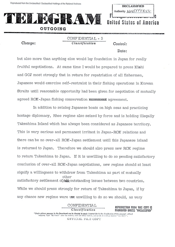 Telegram 3470 to the Department of States from the U.S.embassy in Japan